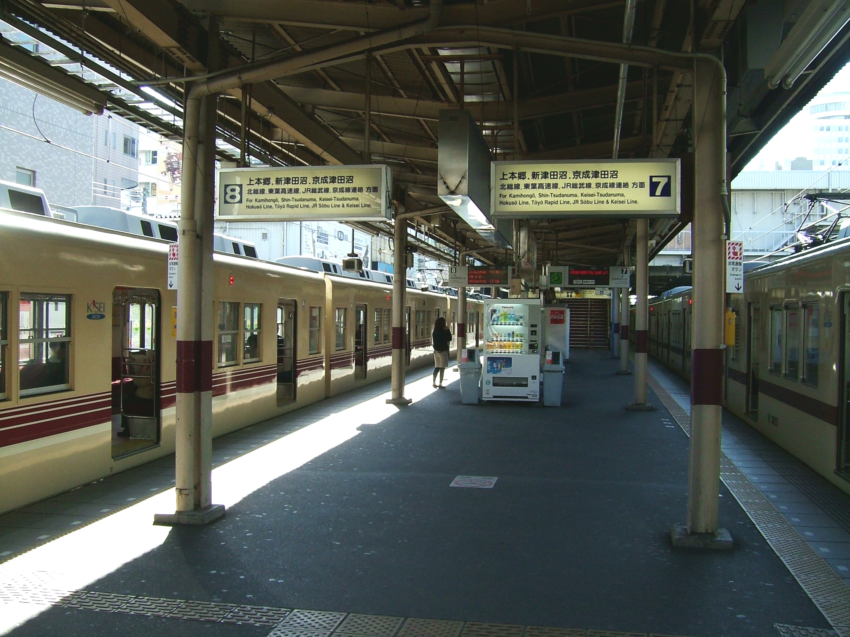 The platform at Matsudo Station on the Shin-Keisei Line in Matsudo city, Chiba prefecture, Japan